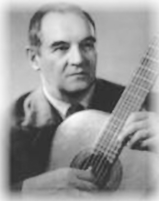 Foto histórica de Isaías Sávio retocada no computador.